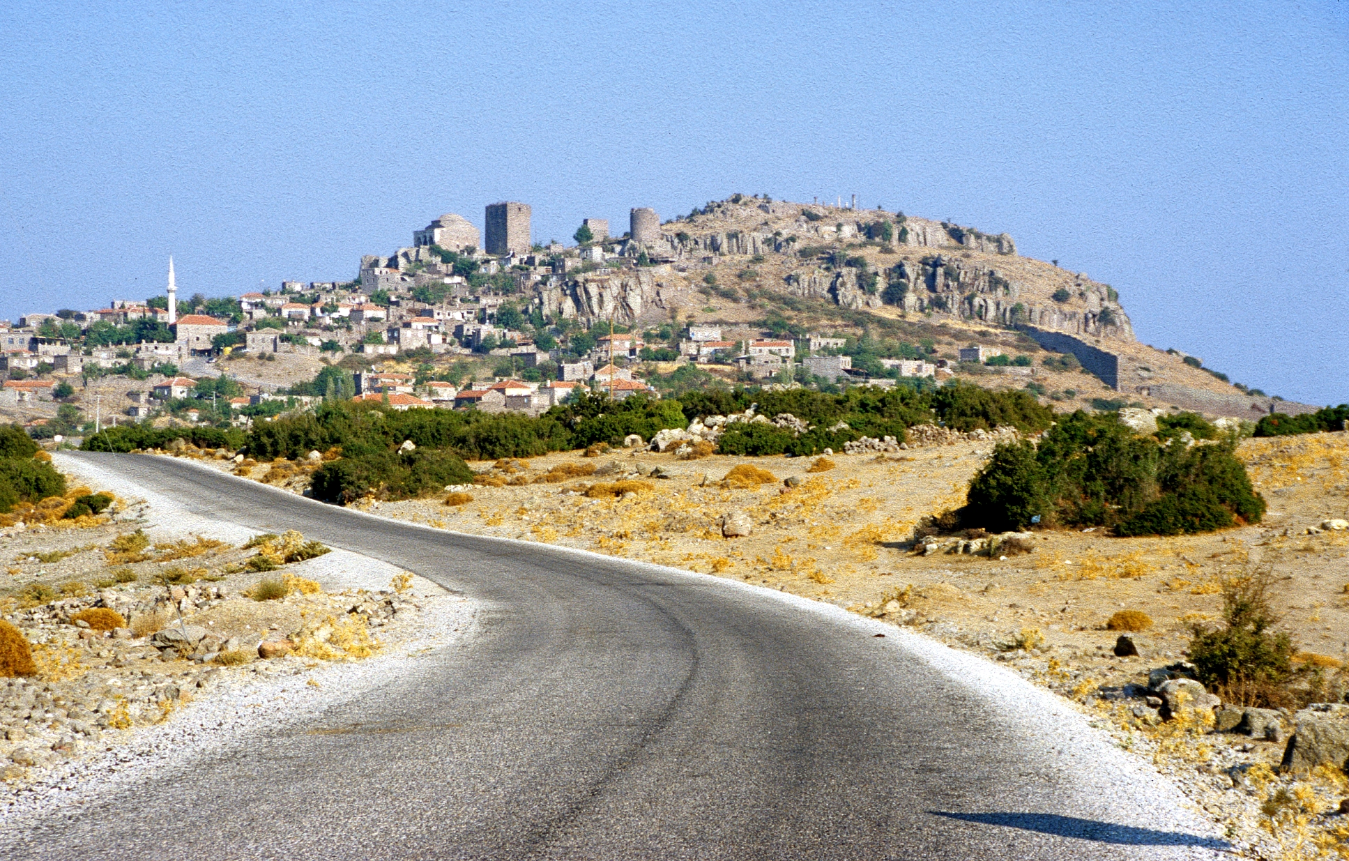 Assos Western Turkey, town and castle.